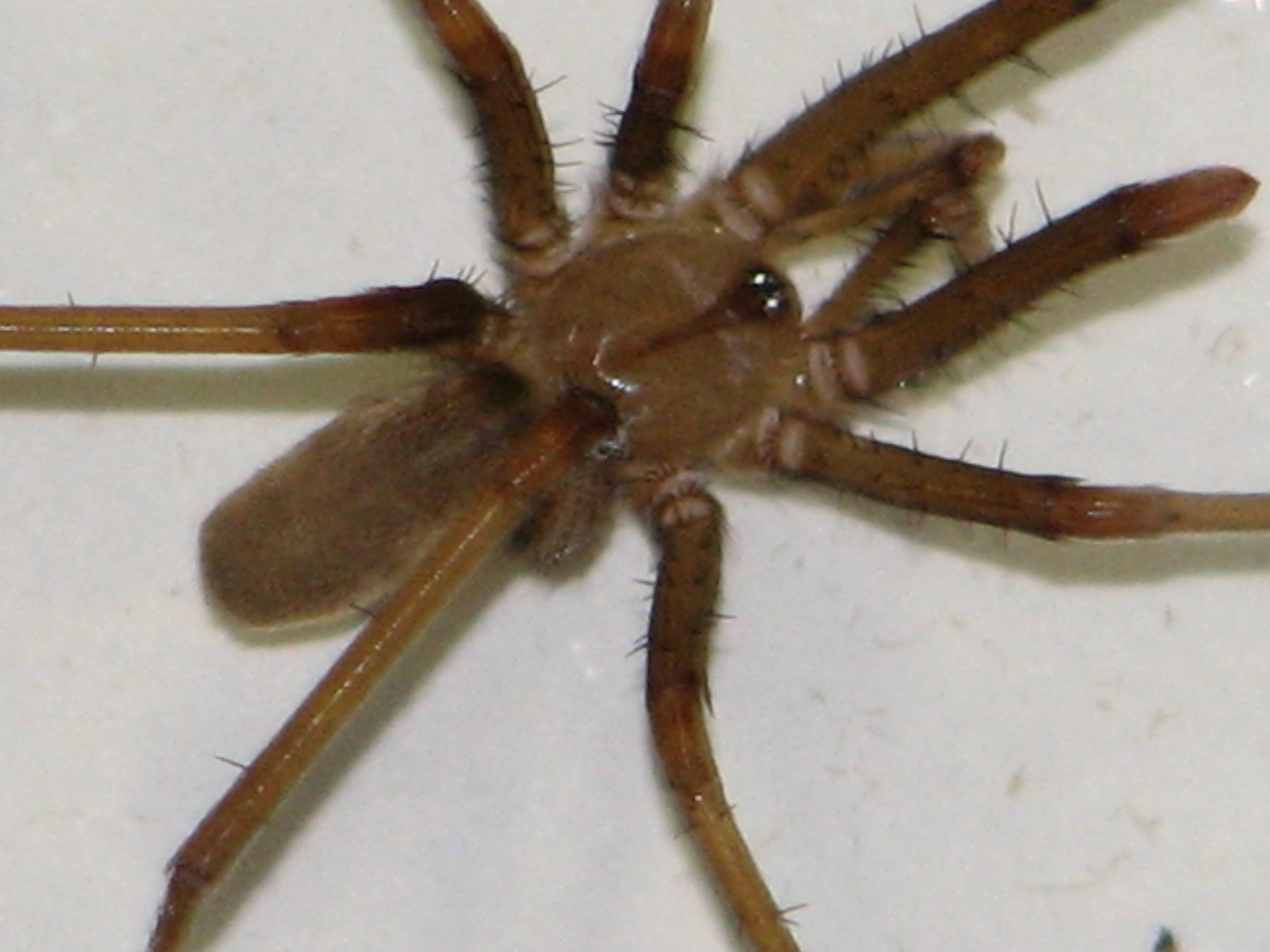 male of Kukulcania hibernalis at Congaree National Park, South Carolina, USA